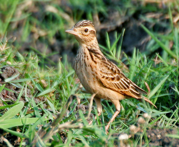 Oriental Skylark or Oriental Lark or Small Skylark Alauda gulgula in Kolleru, Andhra Pradesh, India.